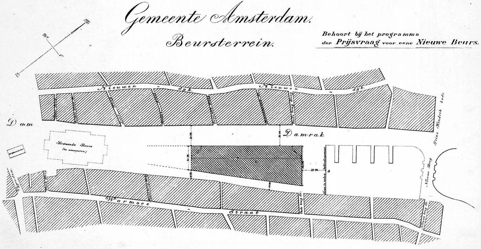 Site drawing belonging to the competition programme of a new Stock Exchange in Amsterdam.